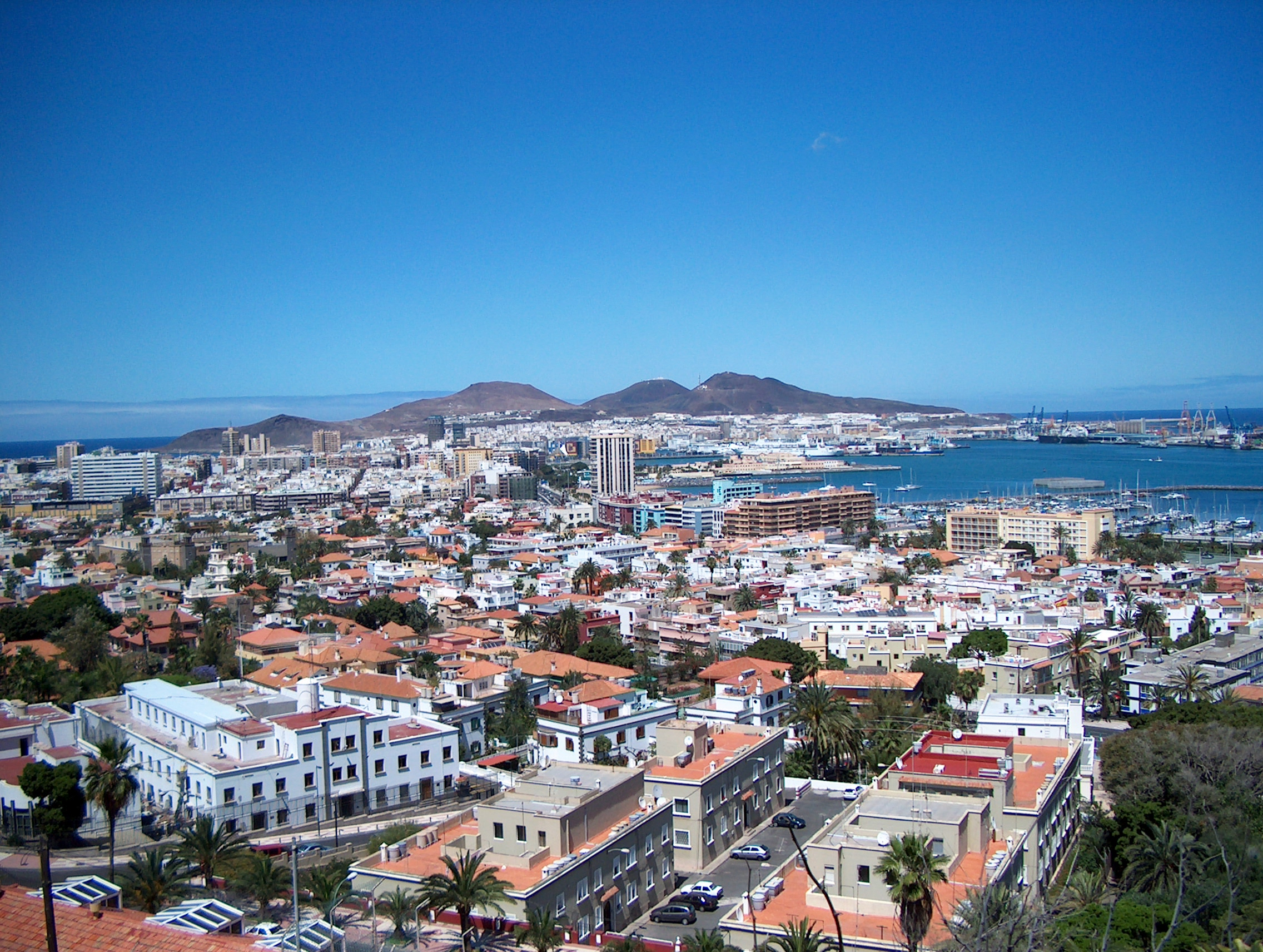 Panoramic view over the city of Las Palmas de Gran Canaria (Gran Canaria). Canary Islands, Spain.